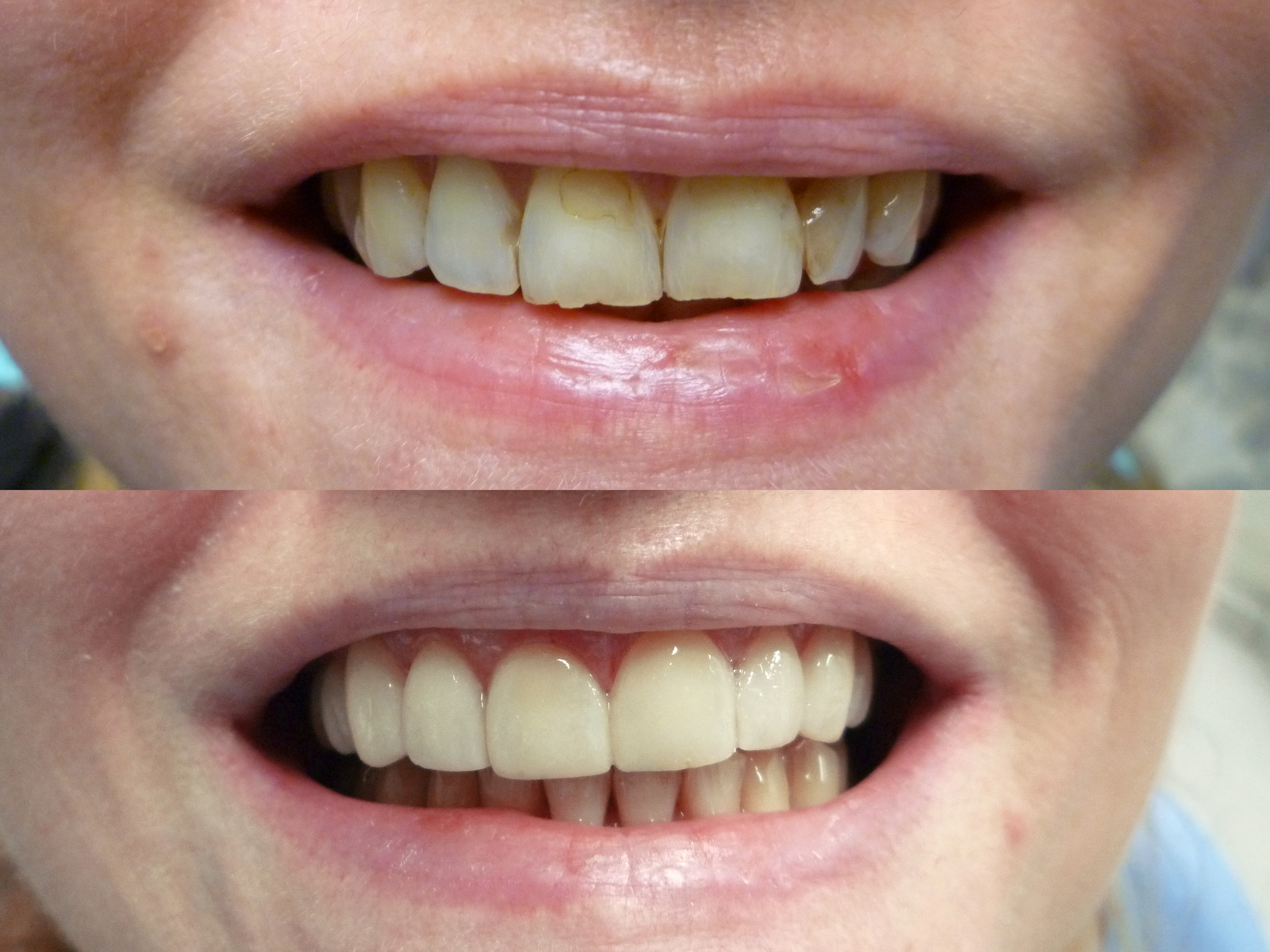 teeth before and after application of veneers